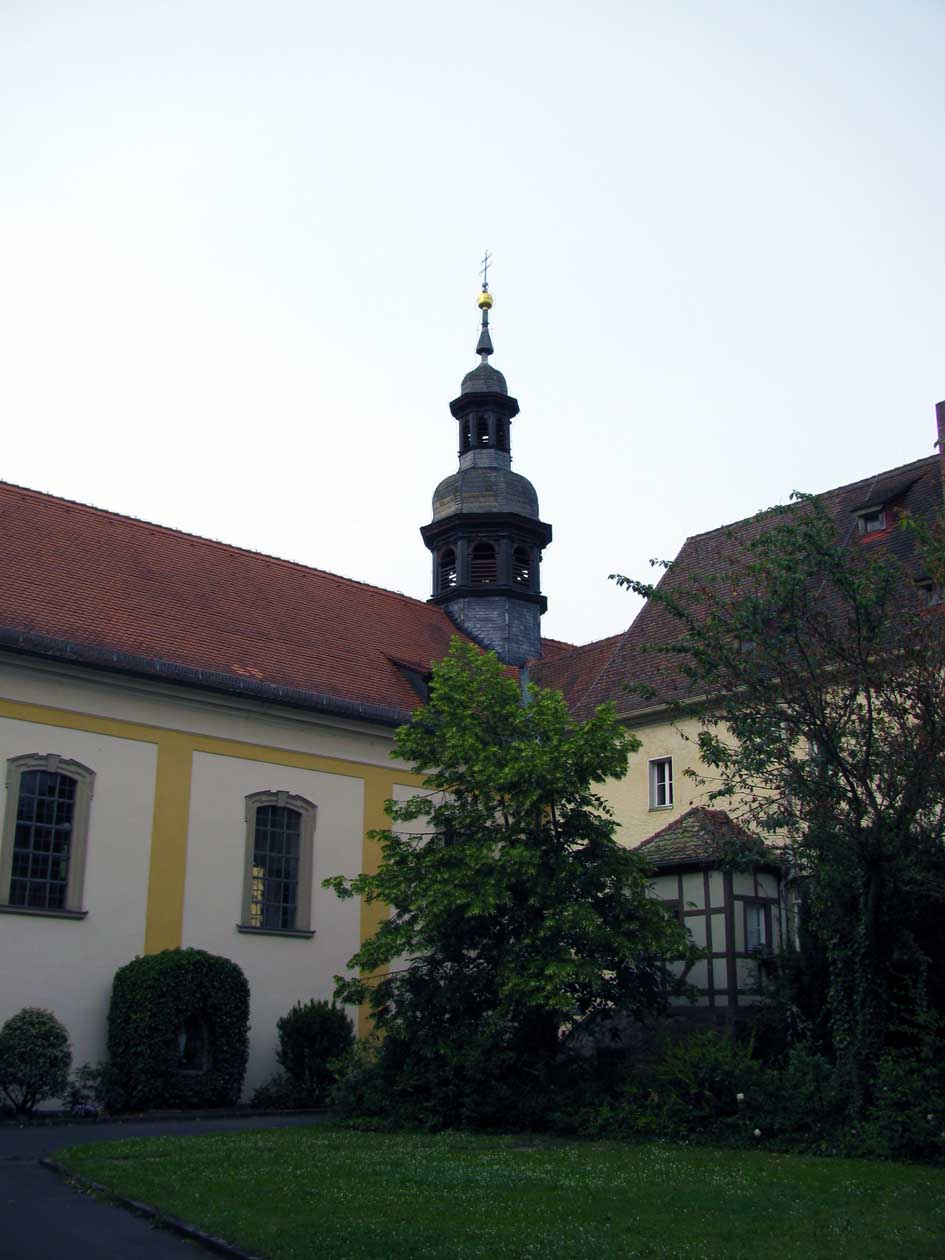 Monastery of Hausen near Bad Kissingen (Germany)